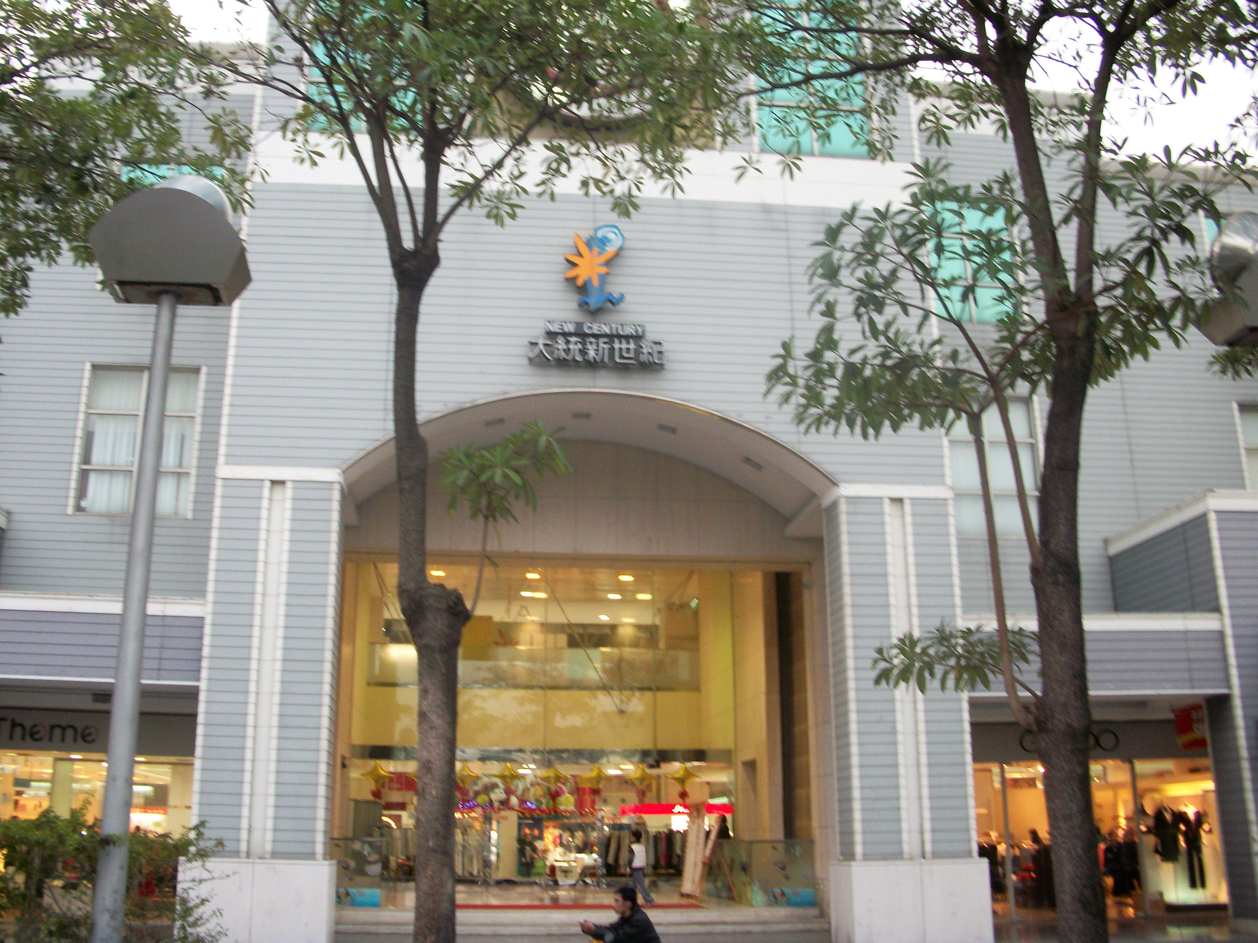 New Century Department Store